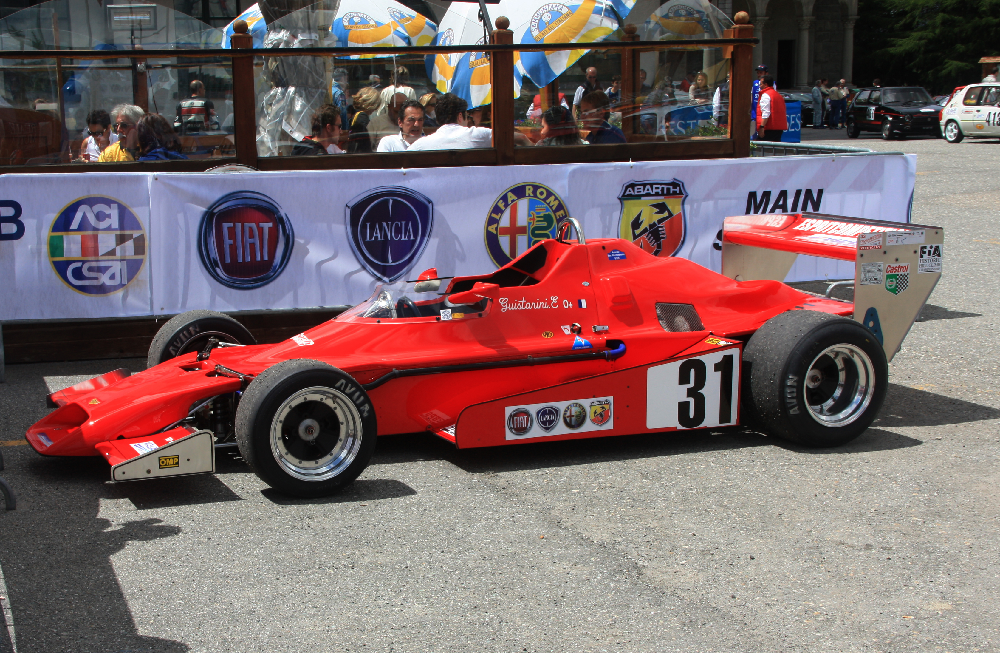 Chevron B48 Formula 2 at the 33rd Cesana-Sestriere hillclimb, 13 July 2014.